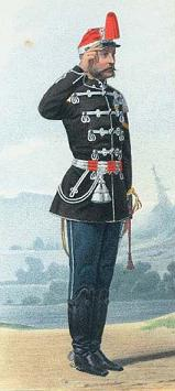 Uniform of Husar 5-th Alexandrya Regiment.